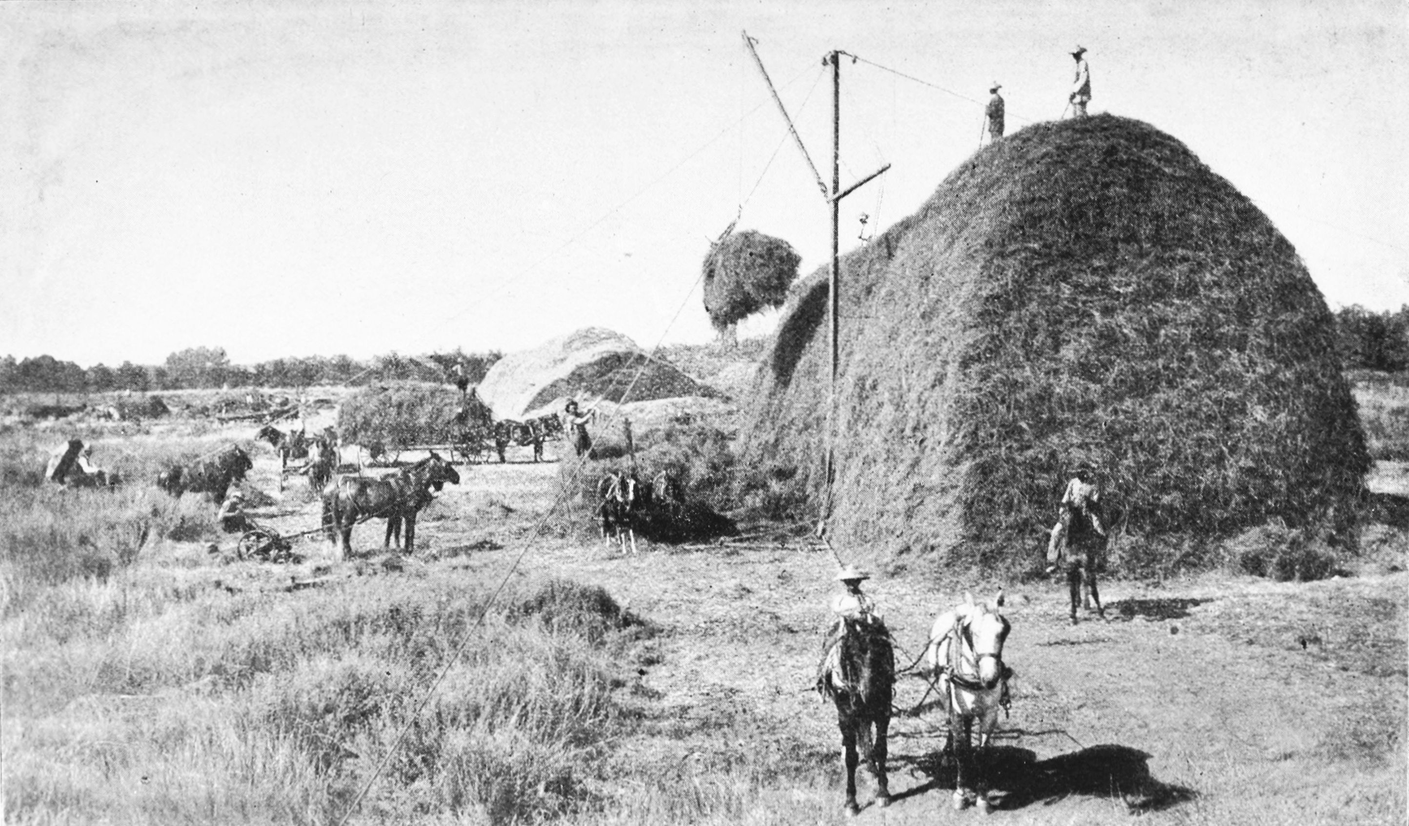 Alfalfa fields in the desert